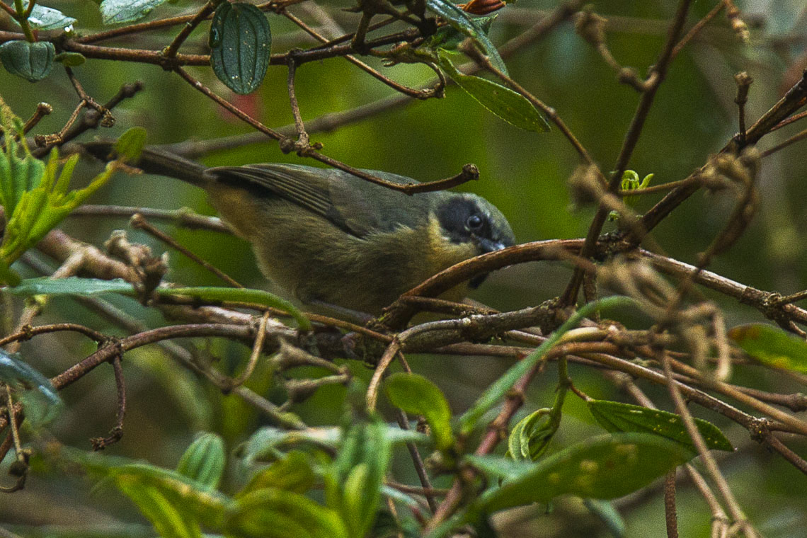 Black-eared Hemisphingus - Ecuador_S4E3610